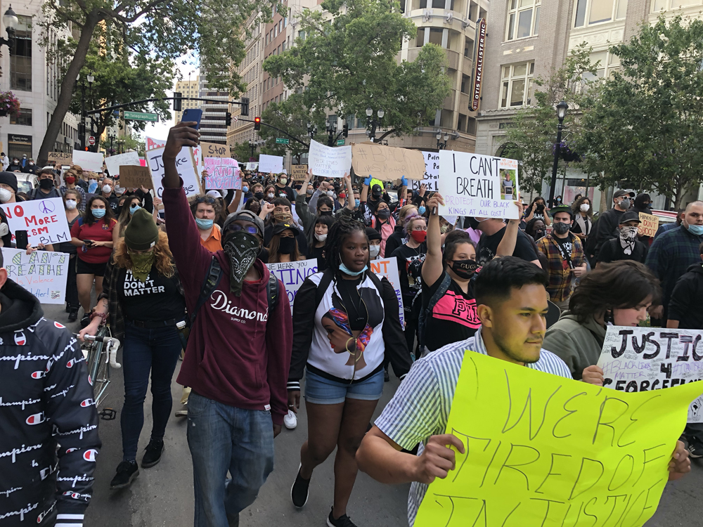 2020/05/29 BlackLivesMatter GeorgeFloyd Protest Oakland, California BlackLivesMatter #GeorgeFloyd #BigFloyd #Oakland #California AbolishThePolice #Justice4Floyd #JusticeforGeorgeFloyd #OPD #RiotPolice OscarGrantPlaza #14&Broadway